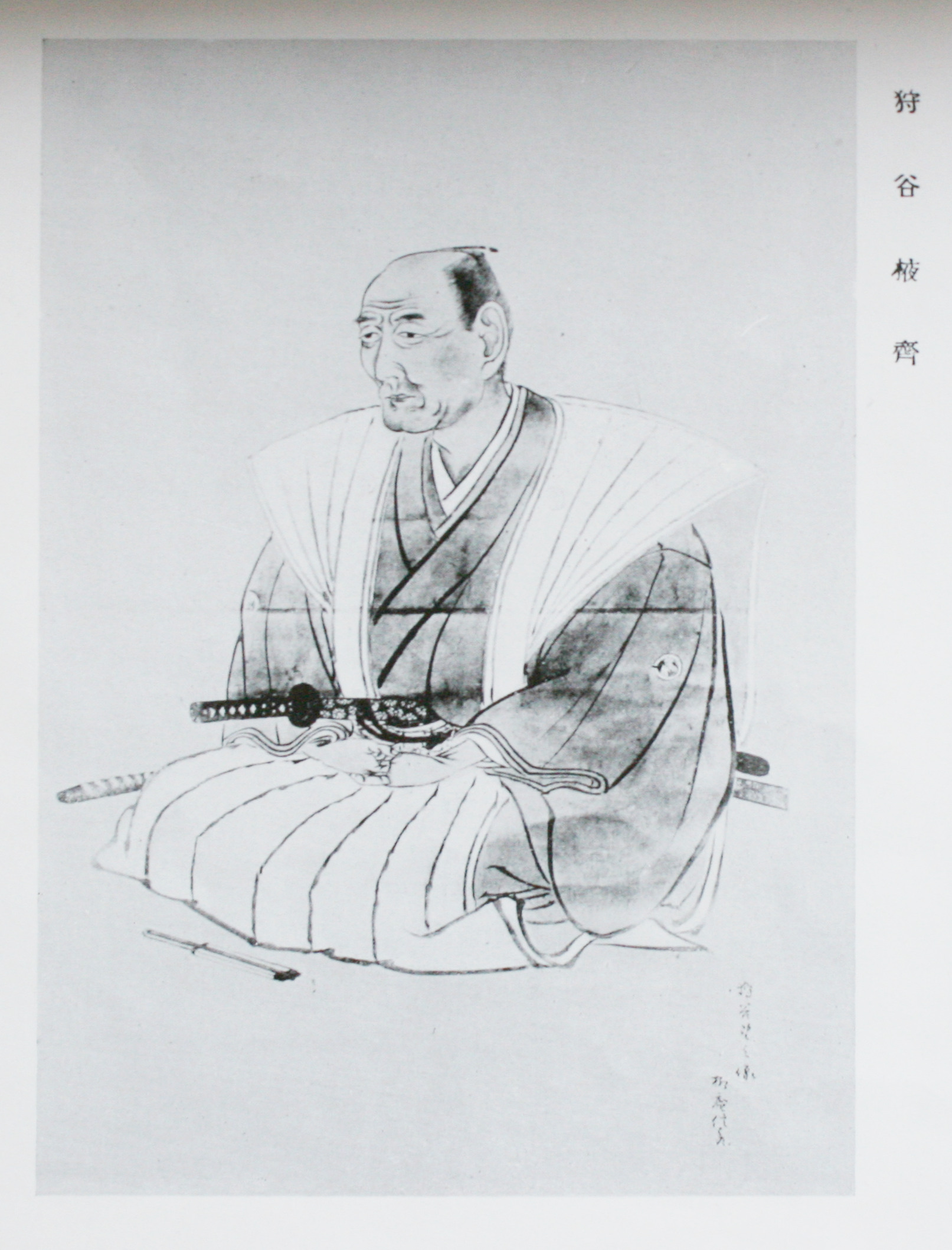 Portrait of KARIYA EKISAI （1775-1835） scholar and calligraphe